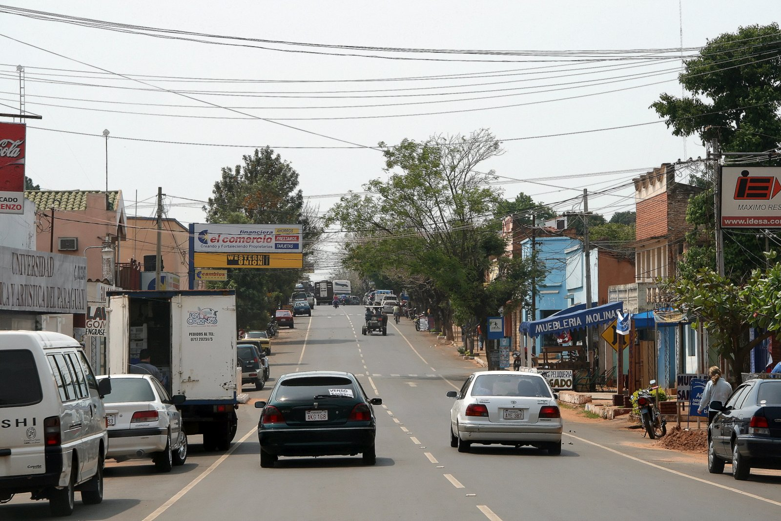 Route 1 passes through San Ignacio.